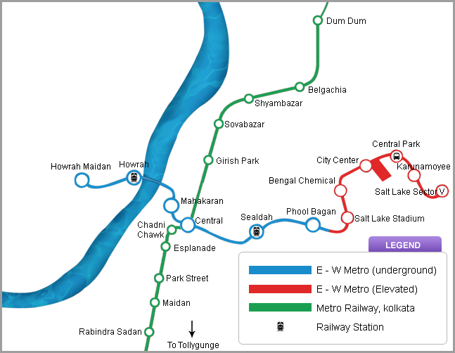 The Route of East West Metro Proposed By Kolkata Metro Rail Corporation